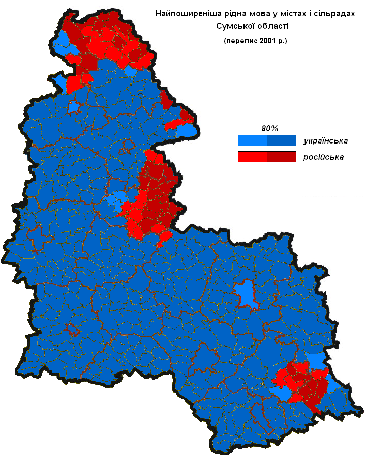 Native languages of Sumy oblast according to 2001 census